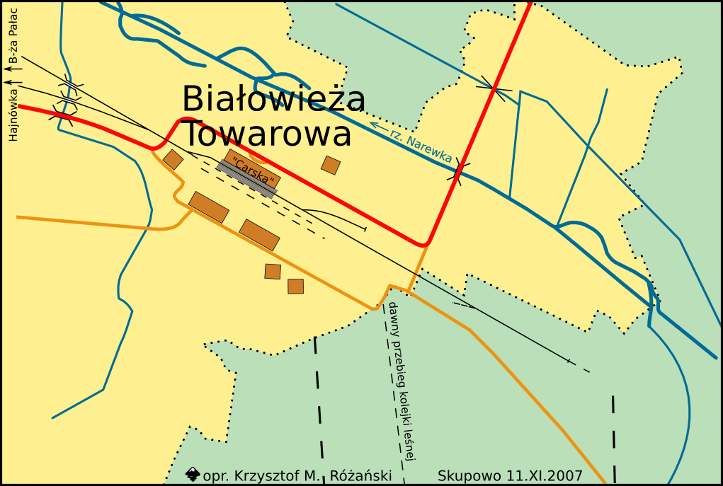 schematic chart of Białowieża Towarowa railway station in Białowieża, Poland